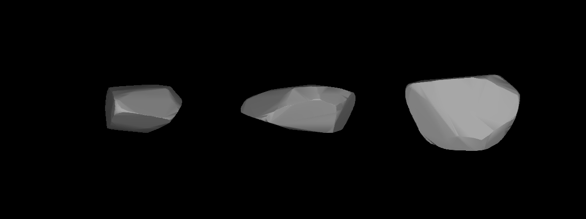 A three-dimensional model of 1378 Leonce that was computed using light curve inversion techniques.